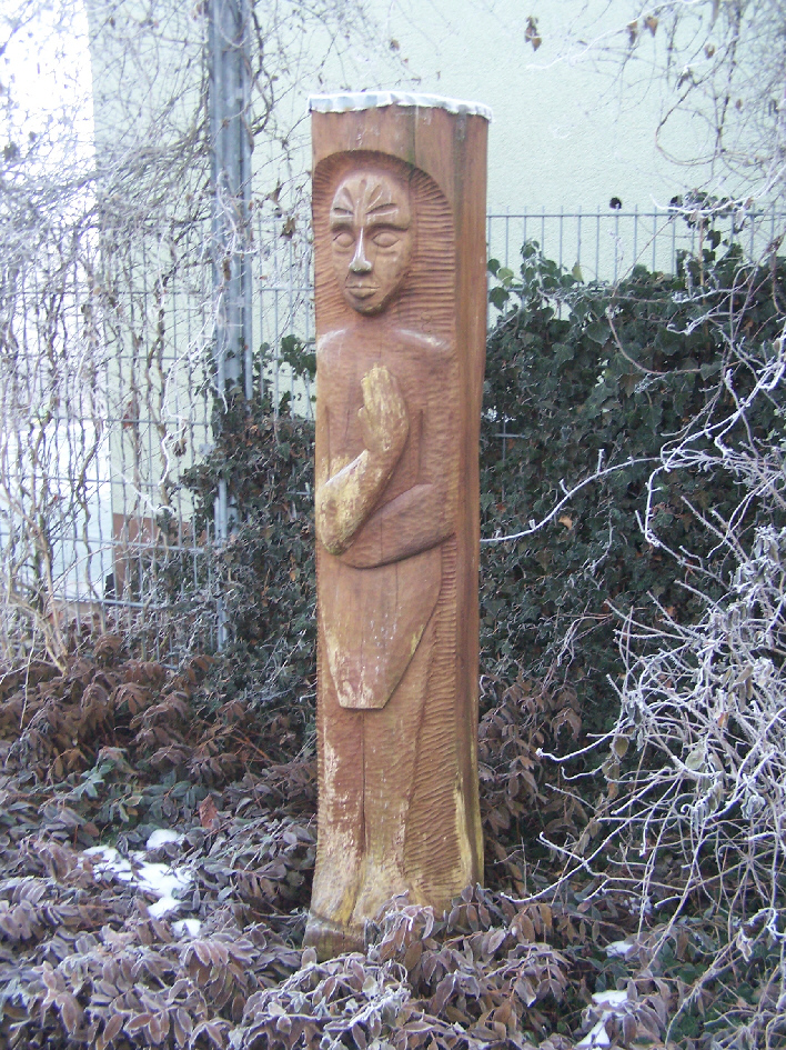 A sculpture at the Pumpälzweg, Schulgasse, in Witzelroda.